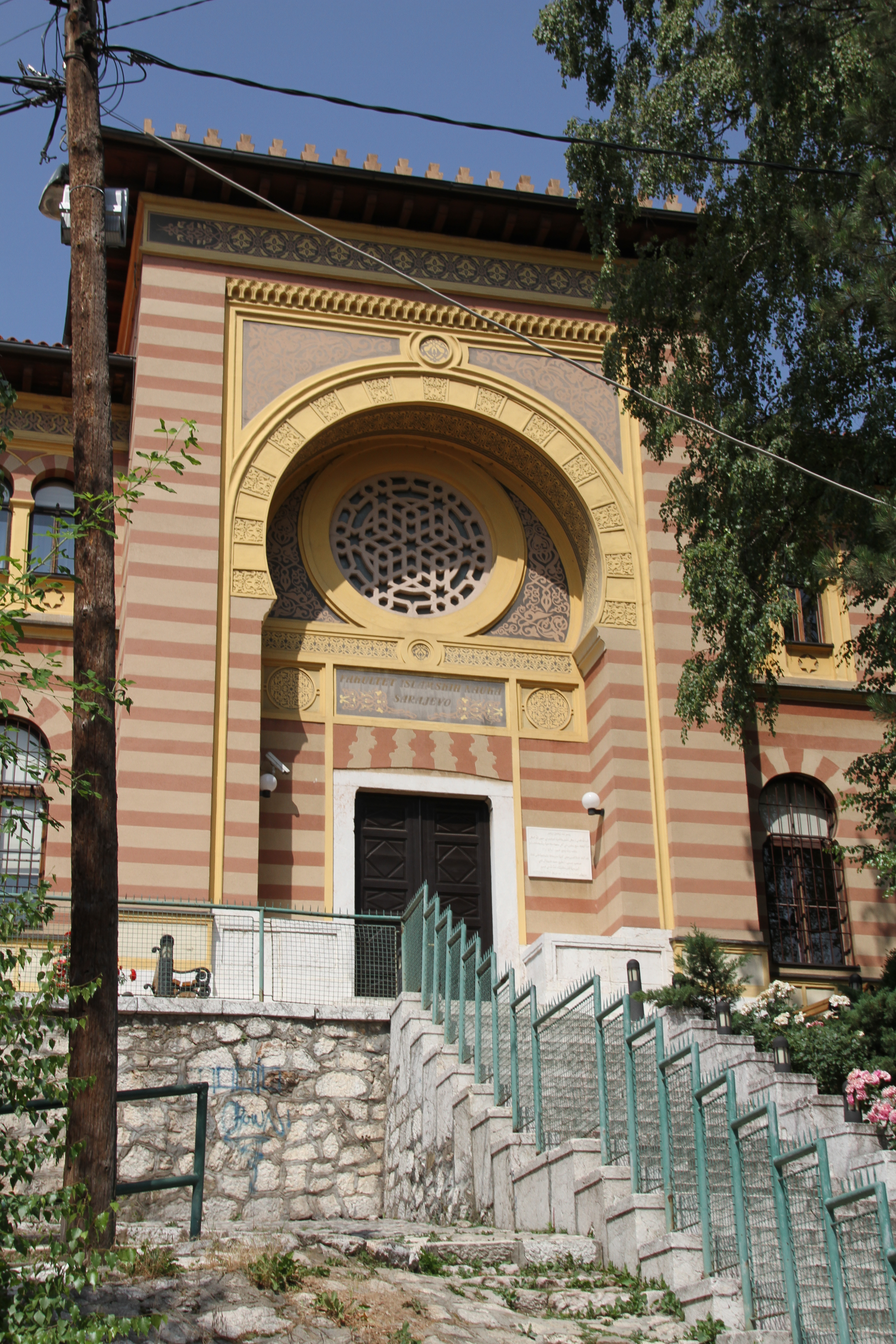 The former Sharijah Law School of Sarajevo, today this is the Faculty of Islamic Science (Faculty of Islamic Studies. Old part of the city of Sarajevo, Bosnia-Hercegovina. All the buildings are at least 100 years old, thus not violating the laws on Freedom-of-Panorama in the country.